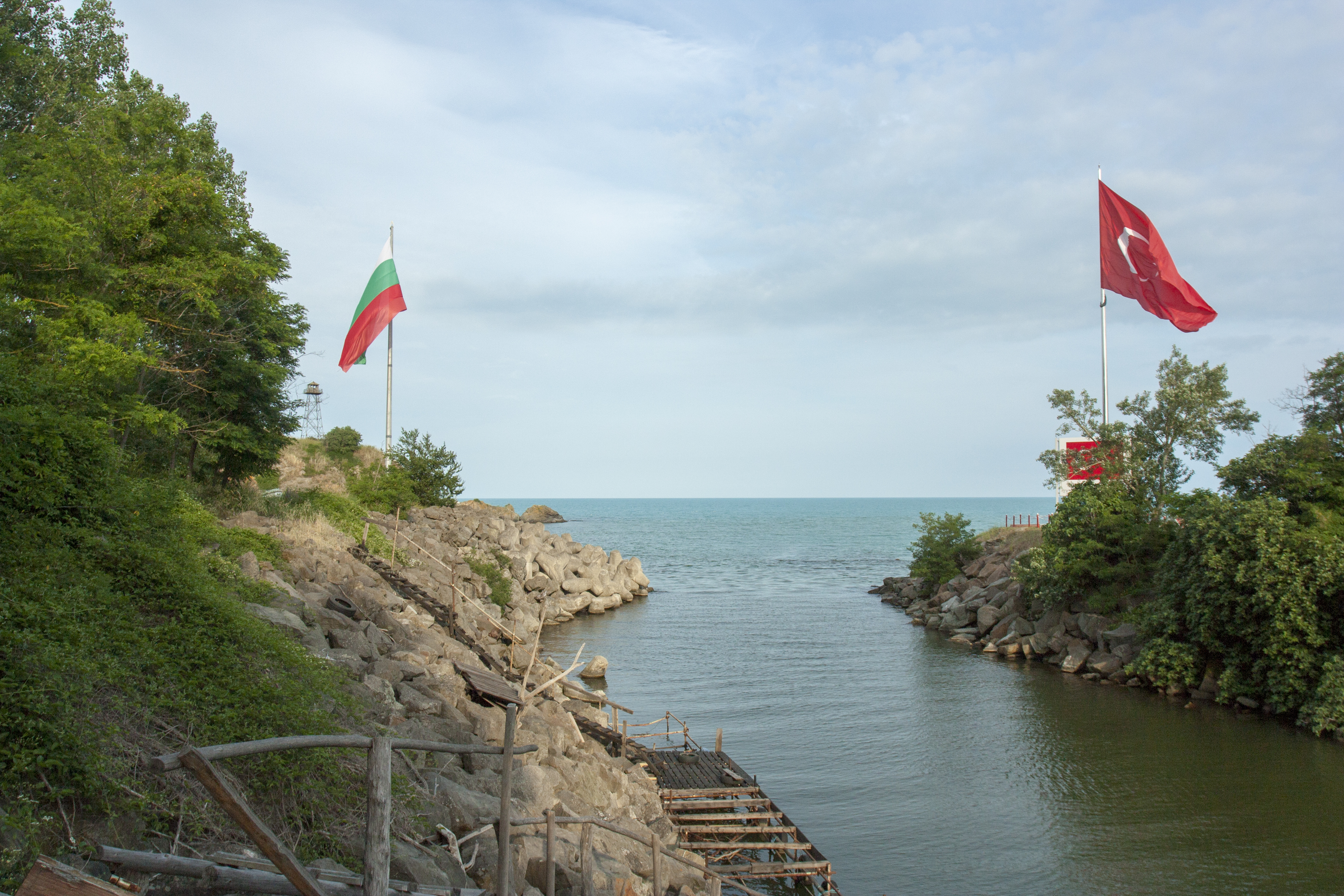 Rezovo River Mouth, Strandzha Nature Park